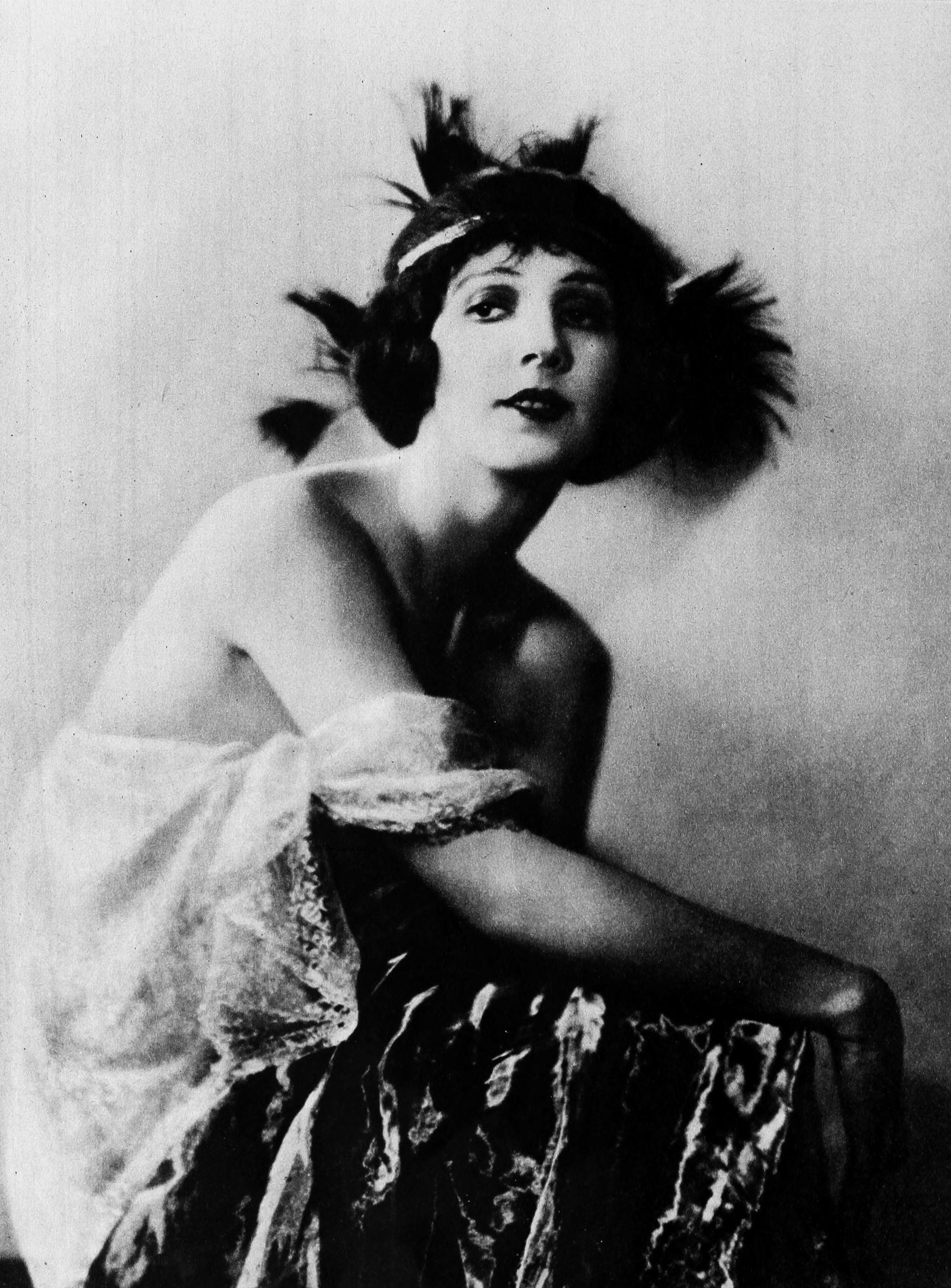 Lubovska (spelled Lubowska in the magazine) on page 32 of the January 1920 Shadowland.